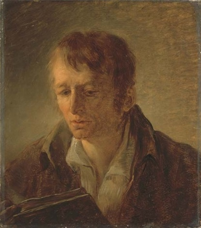 Zelfportret